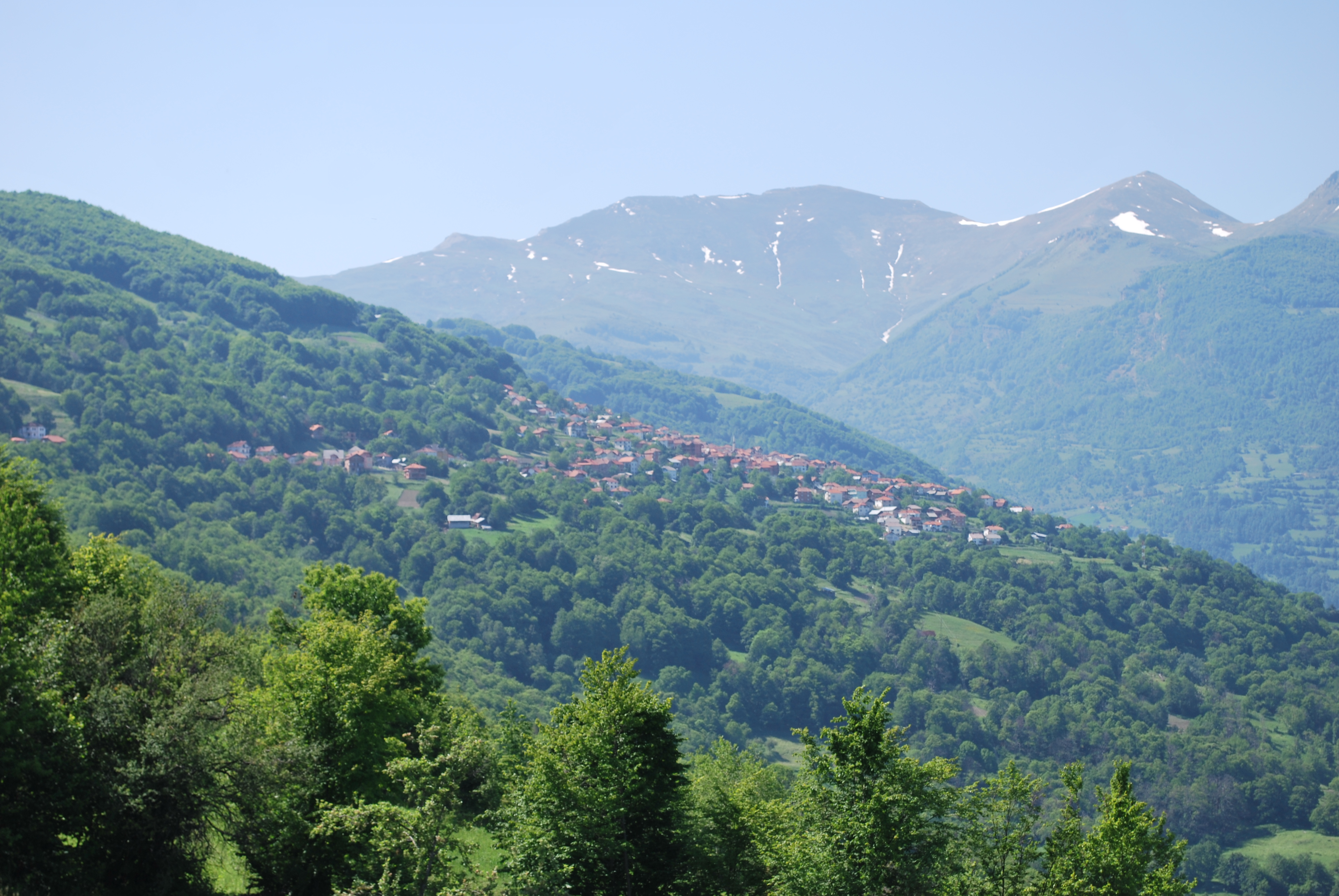 Village of Šipkovica near Tetovo in Macedonia